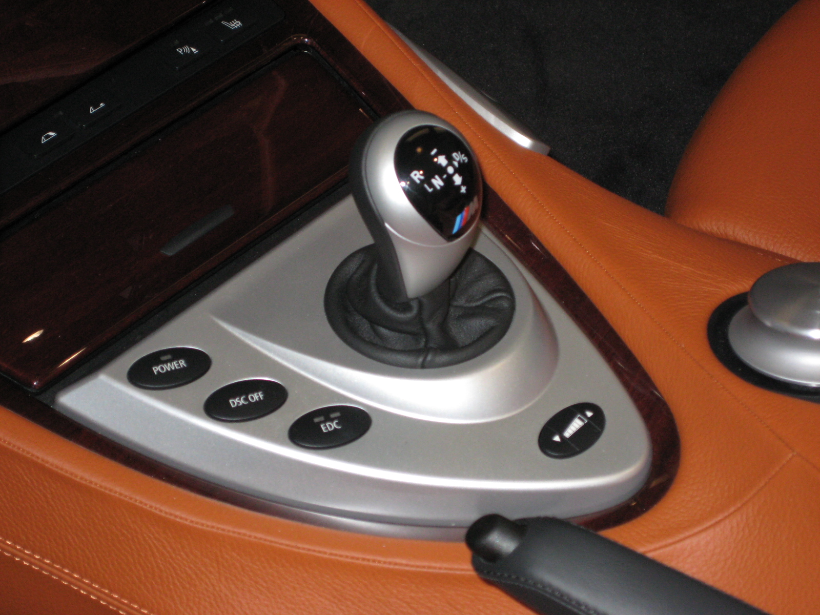 BMW 7Speed SMG Drivelogic